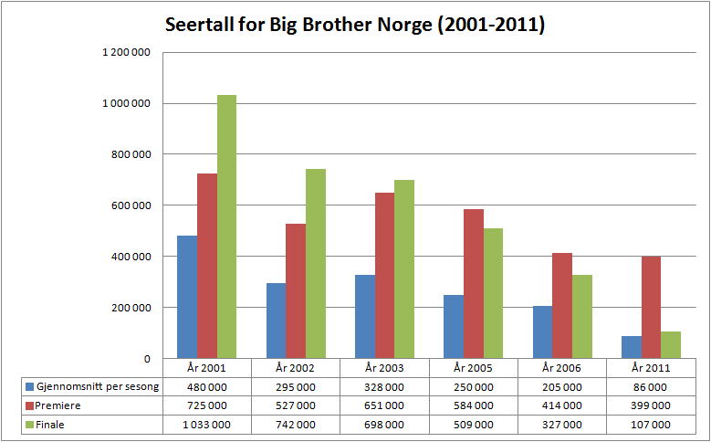 Viewer ratings for Big Brother Norge (2001-2011). Average per seasong, premiere and finale.